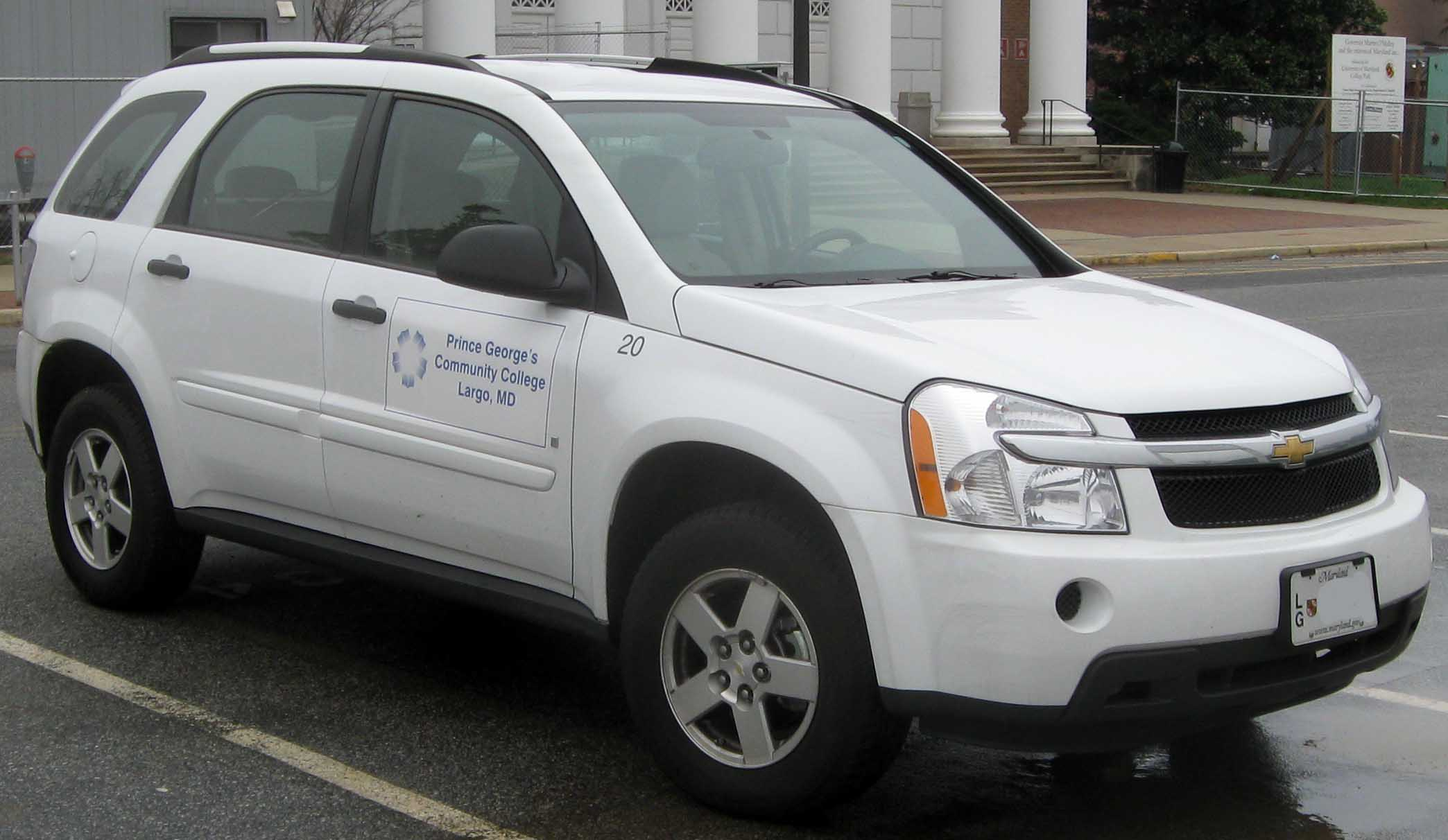 2005-2009 Chevrolet Equinox photographed in College Park, Maryland, USA.